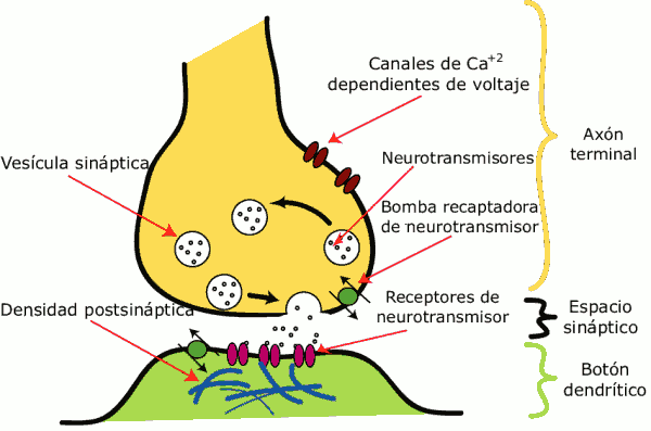 Author: yo Modified: DaDez buebnbnbnbbn